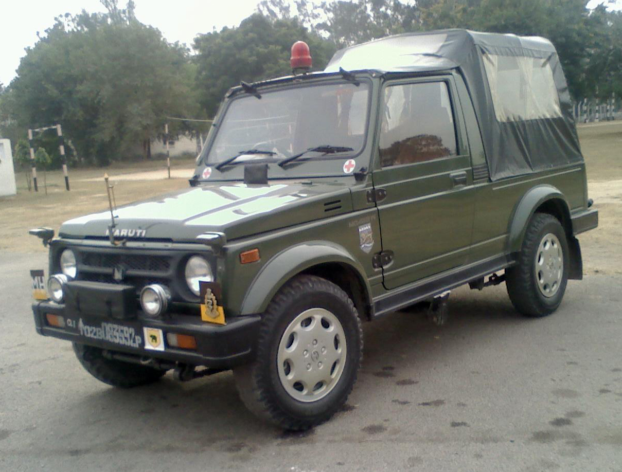 Maruti Jeep 4X4